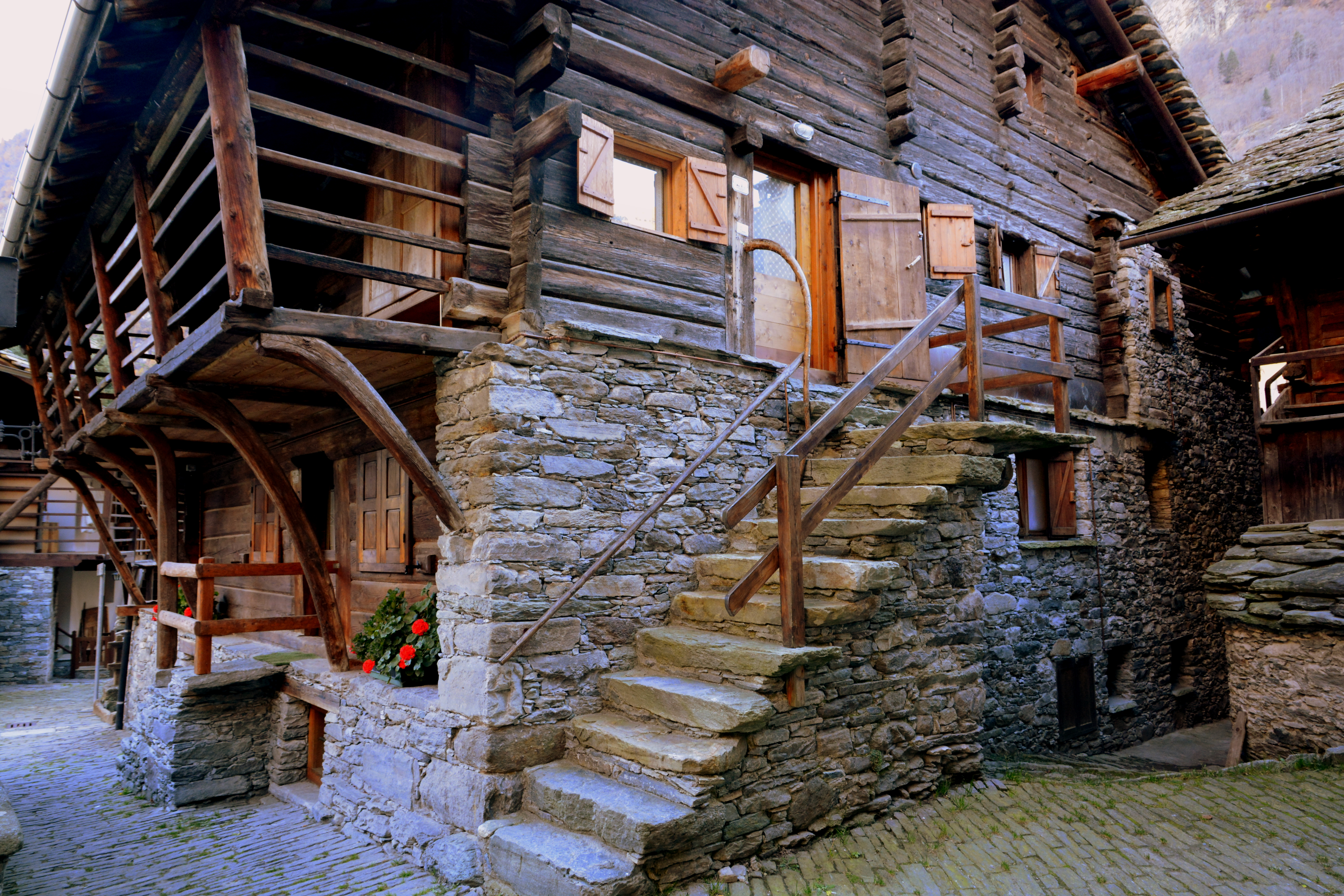 Alagna Valsesia, Dorf (Walser buildings) 17th/18th century